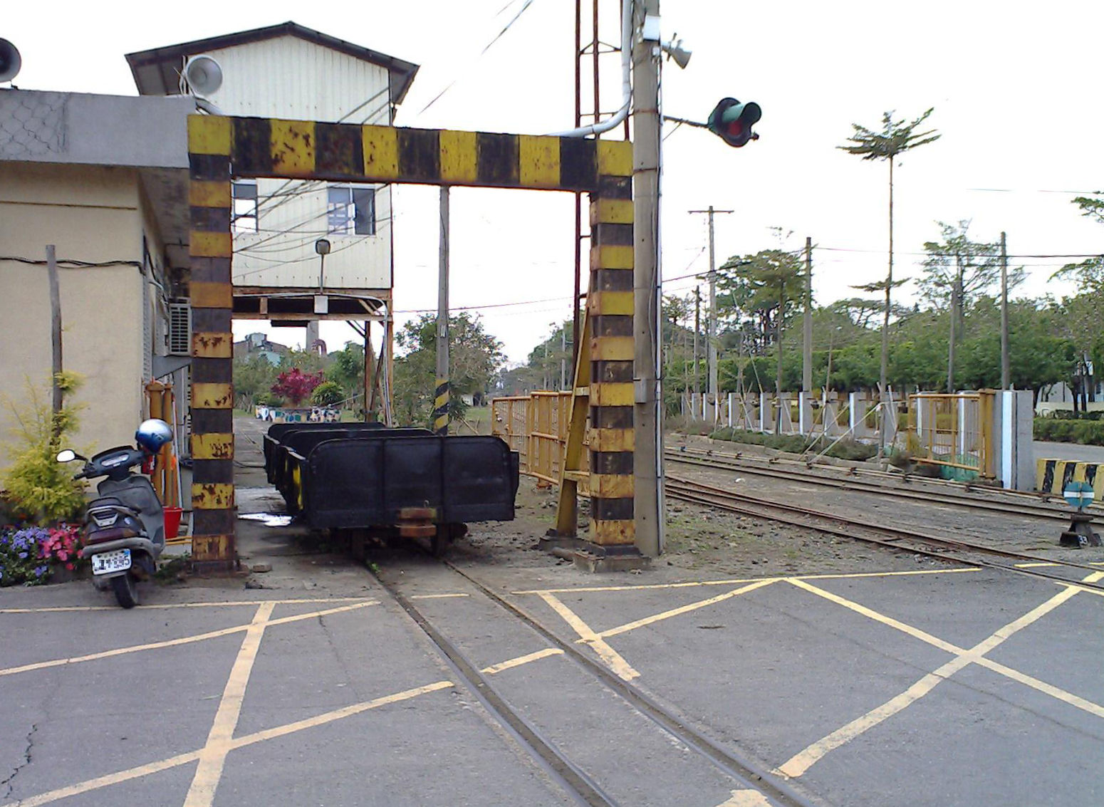 Suantou Sugar Refiney